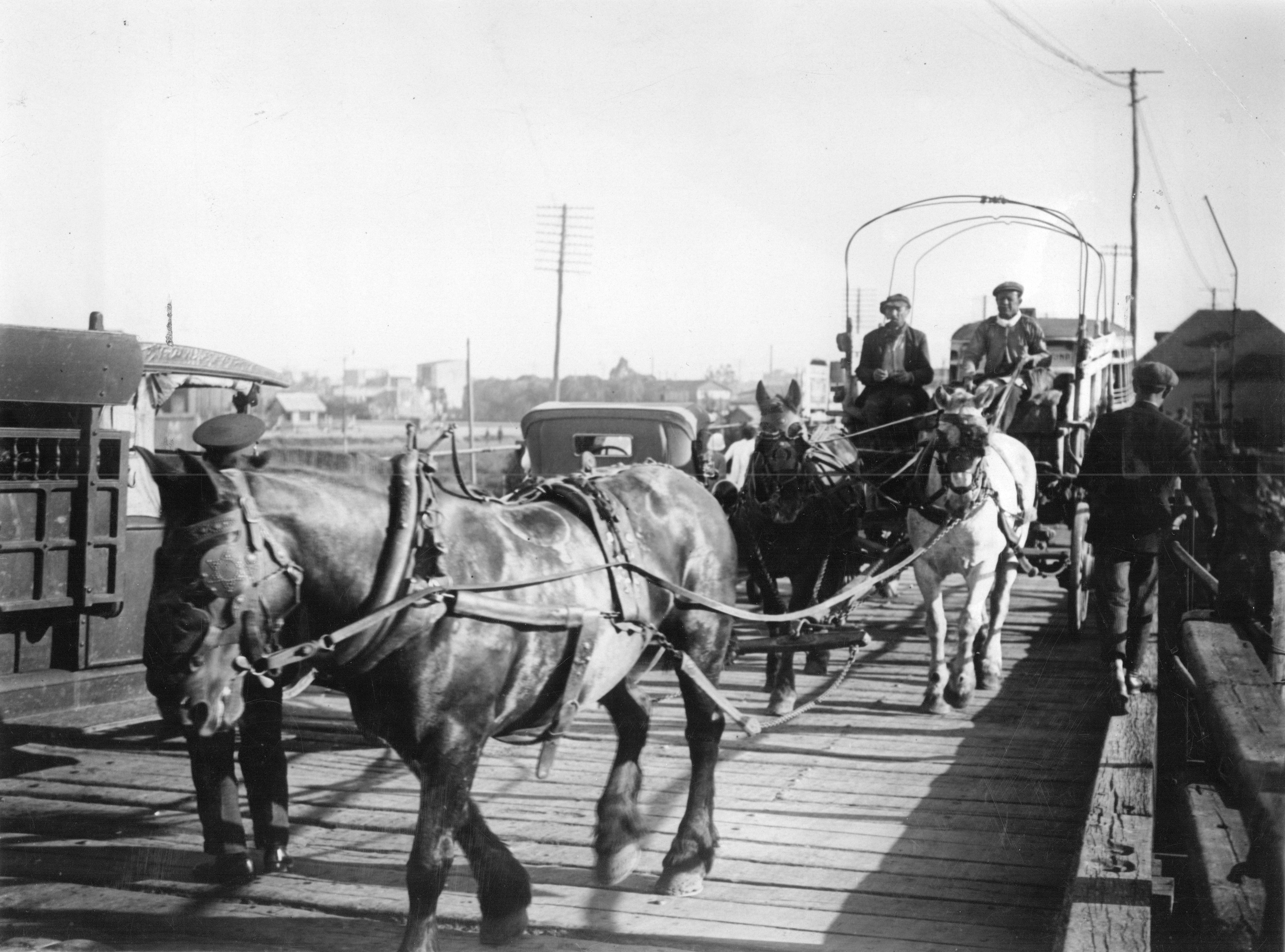 Horse-drawn carriages crossing Puente Alsina.